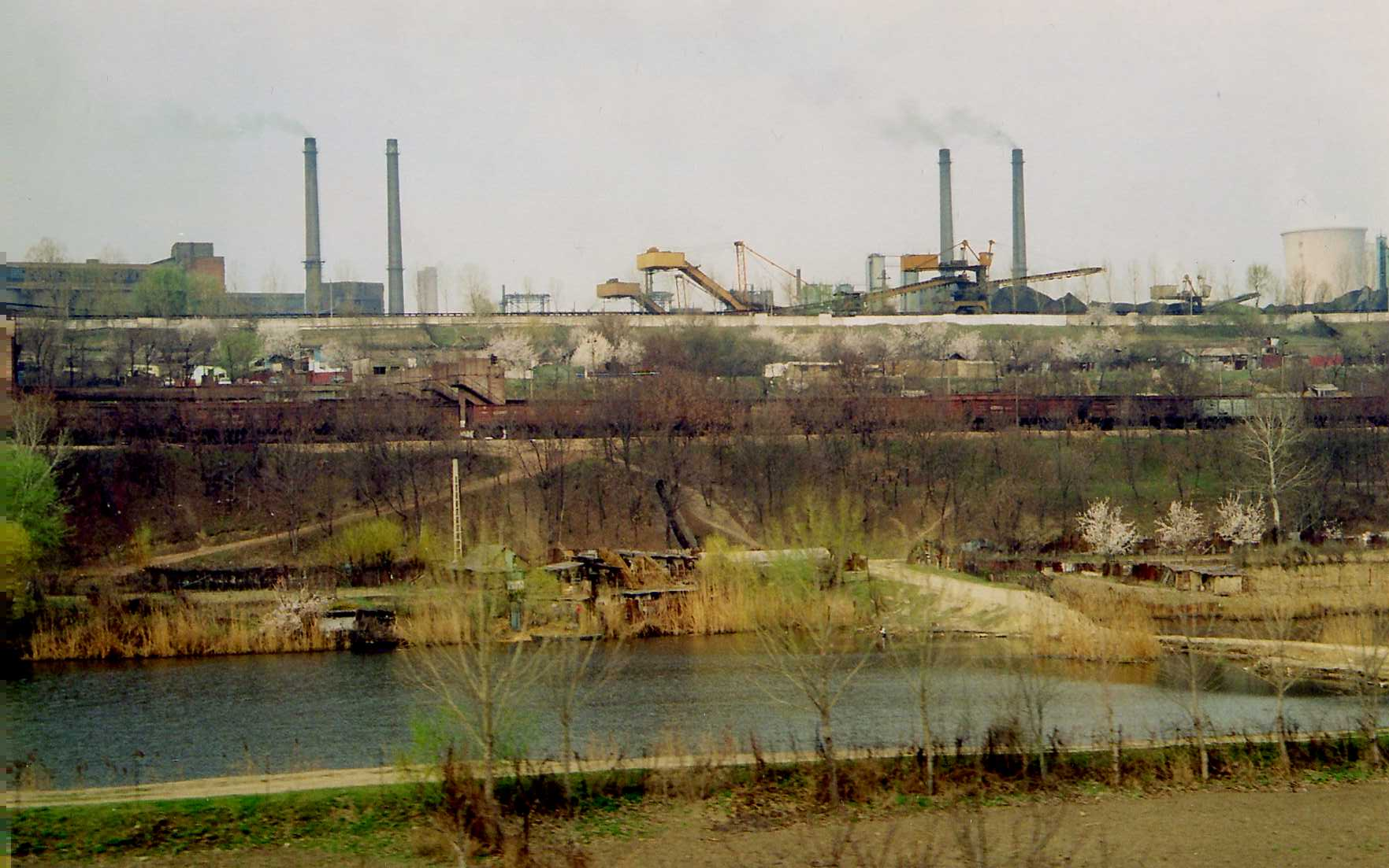 Combinatul Siderurgic ArcelorMittal - the former SIDEX steelworks, now owned by Lakshmi Mittal